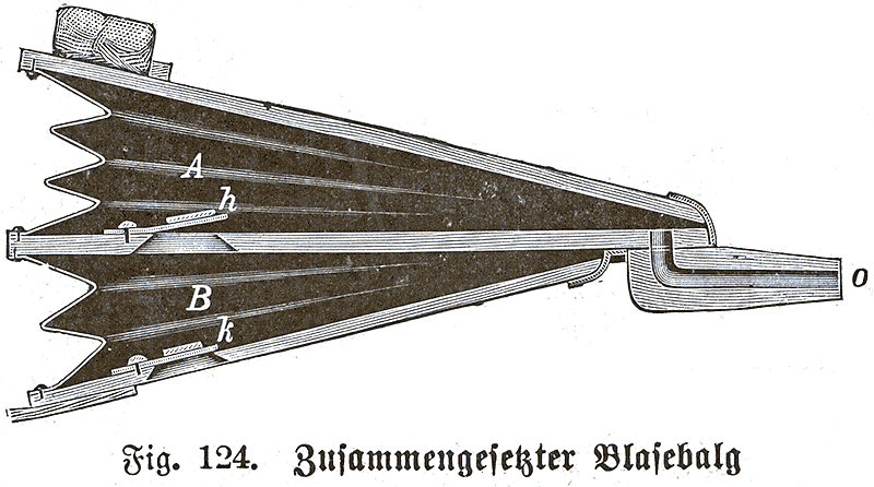 combined bellows